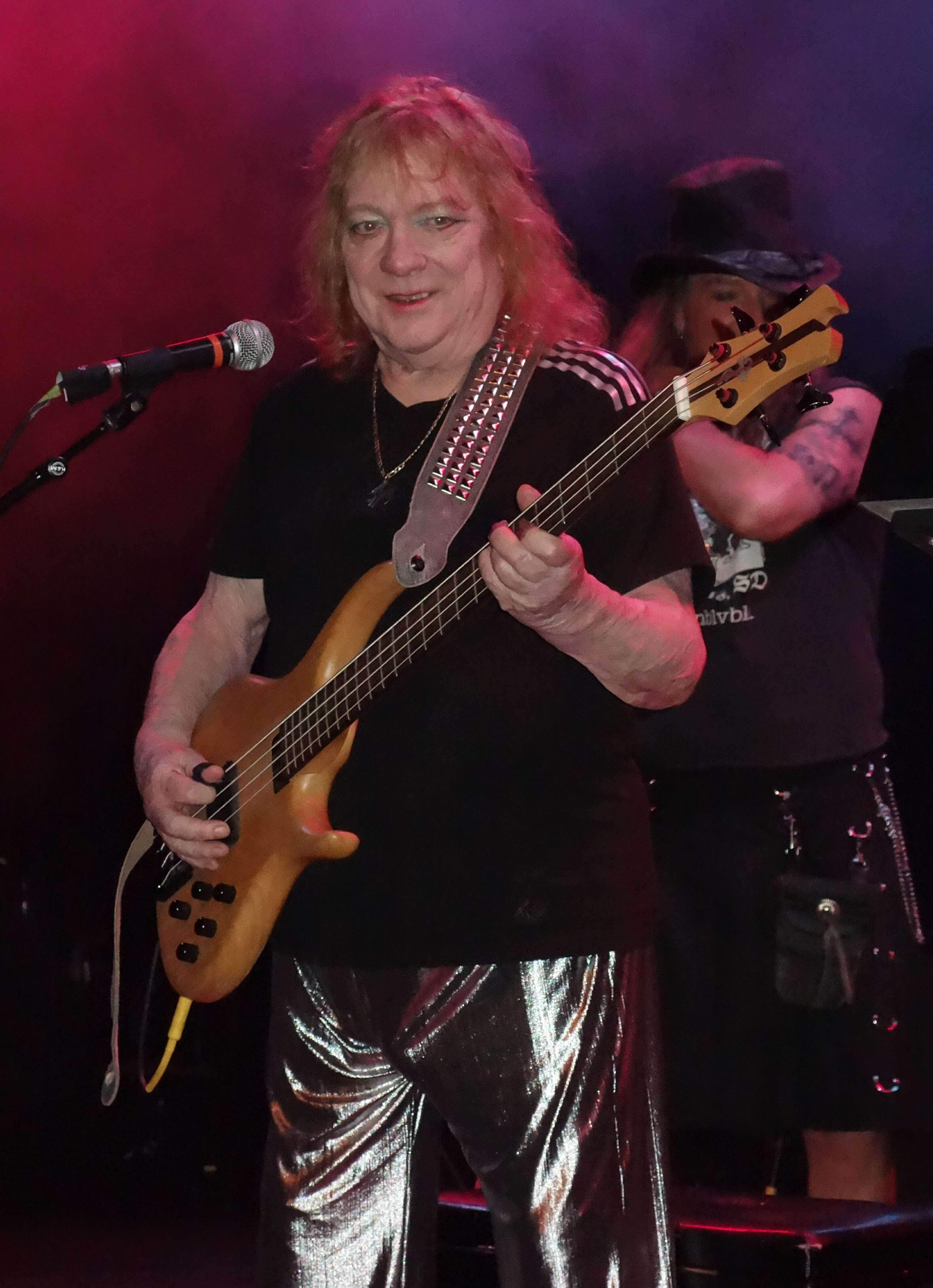 Steve Priest in Dubuque, IA, 9/21/2018